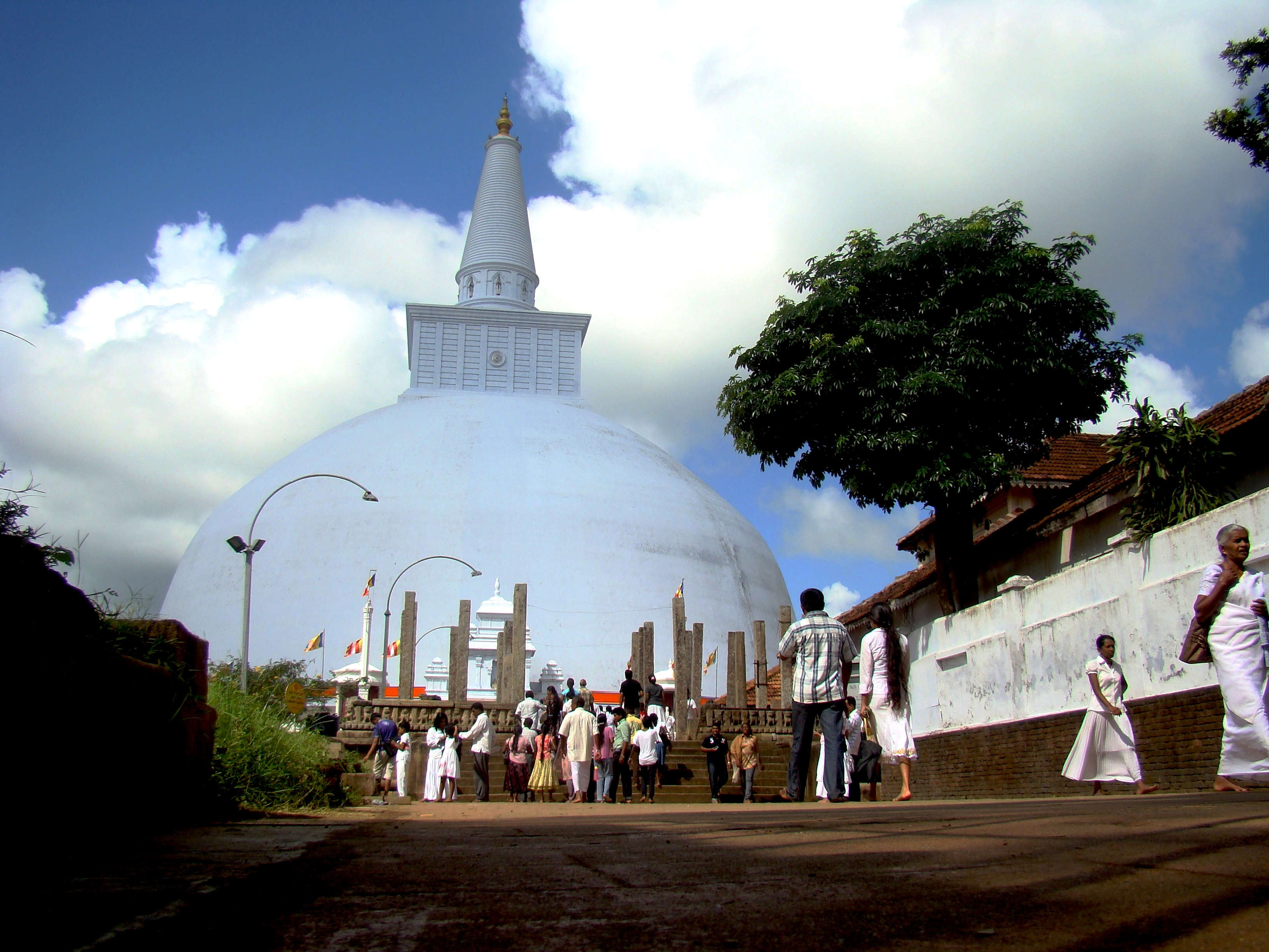 The Ruwanwelisaya is a stupa in Sri Lanka, considered a marvel for its architectural qualities and sacred to many Buddhists all over the world. It was built by KING DUTUGEMUNU (161 BC – 137 BC)